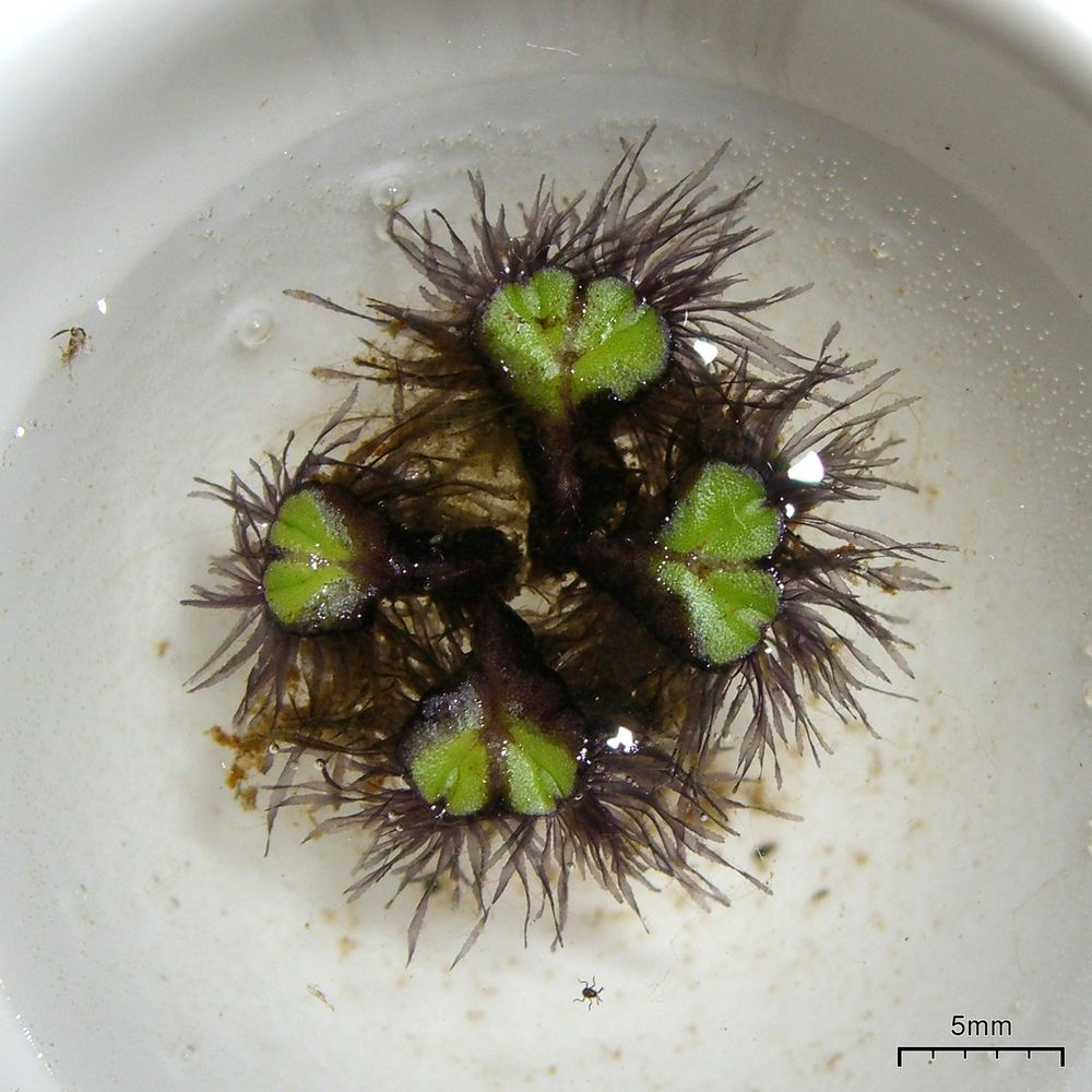 Ricciocarpos natans (L.) Corda, aquatic form. 20090721.1 Edgewood Blue, Wells Gray Park, BC This tiny little thing is a free-floating liverwort!